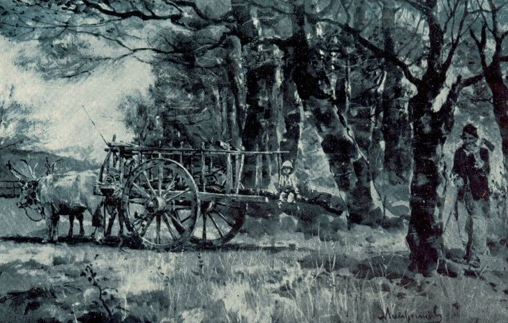 Woodcutters